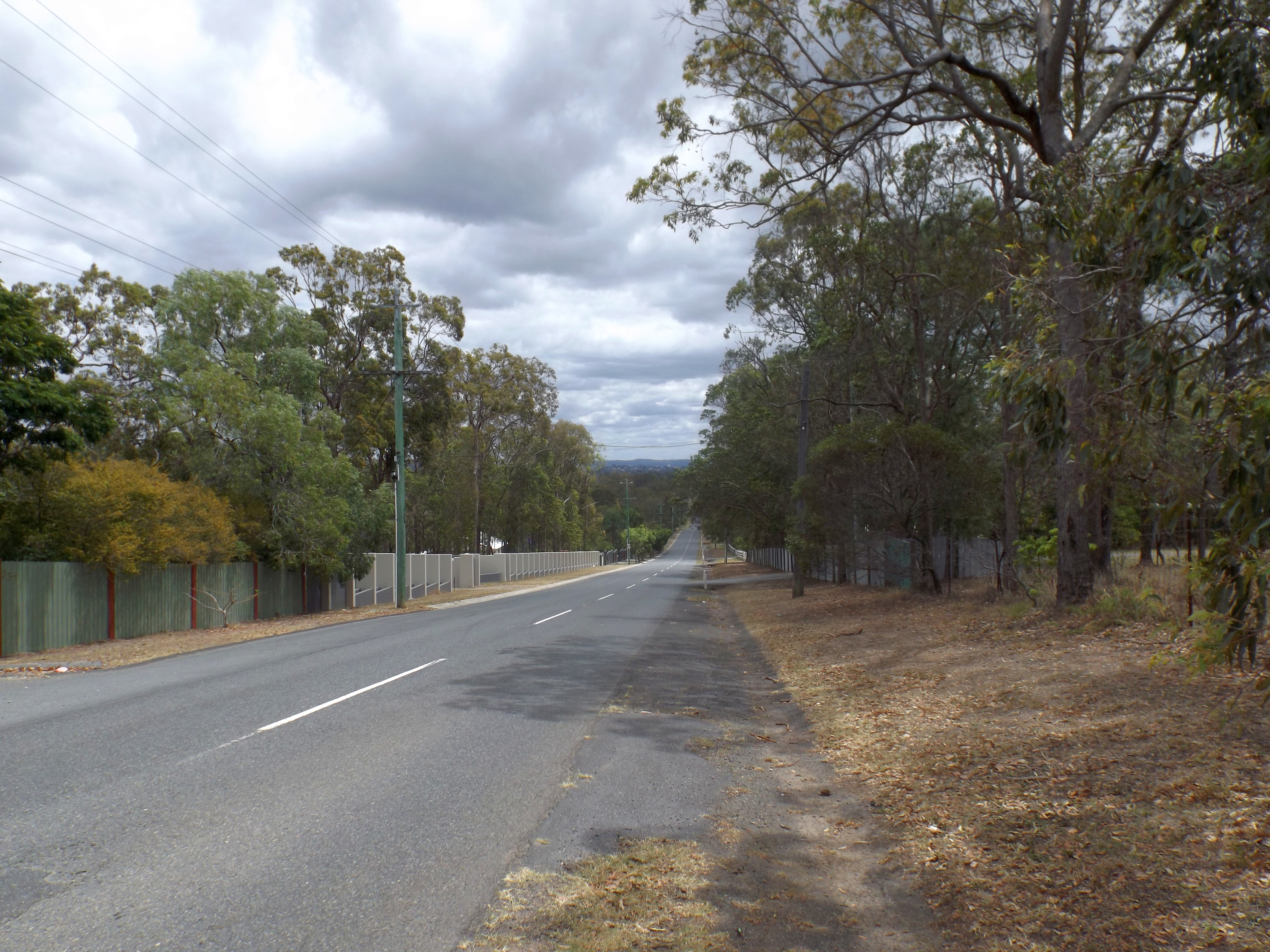 Photo of Grassdale Road at Gumdale in Brisbane, Queensland, Australia.